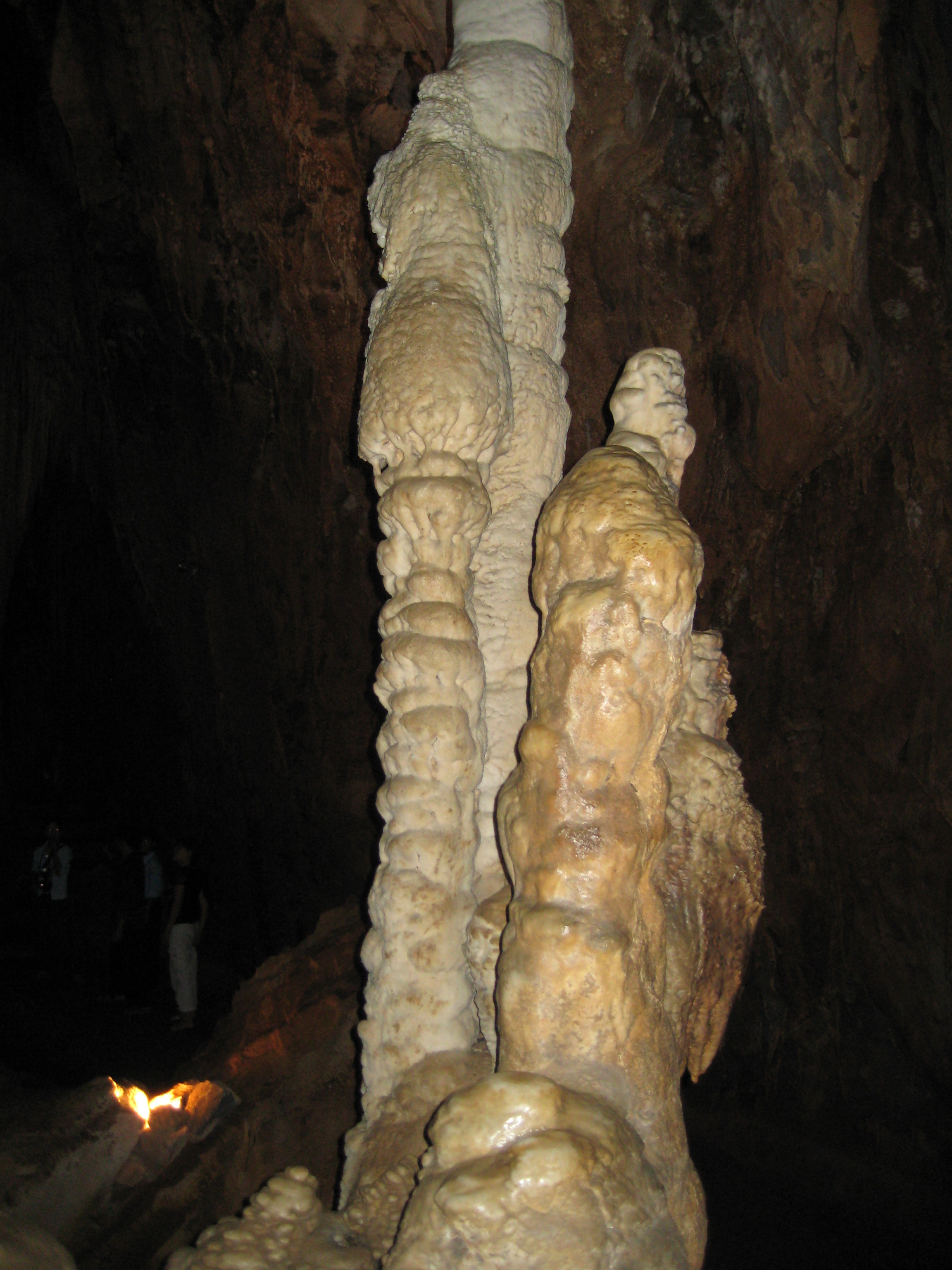 Dry Cave, Phong Nha-Ke Bang National Park, Vietnam